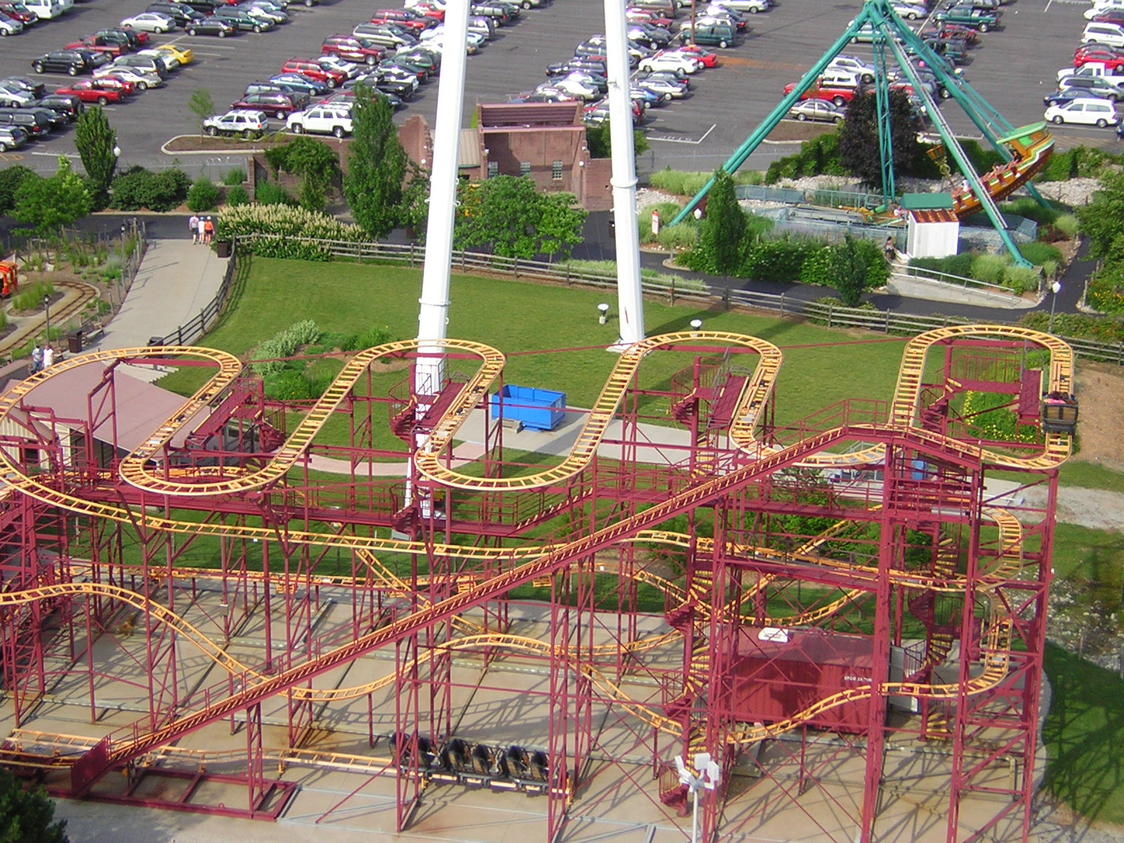 Road Runner Express wild mouse roller coaster at Six Flags Kentucky KingdomCoaster-2004-261